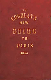 Cover of: Coghlan's New Guide to Paris